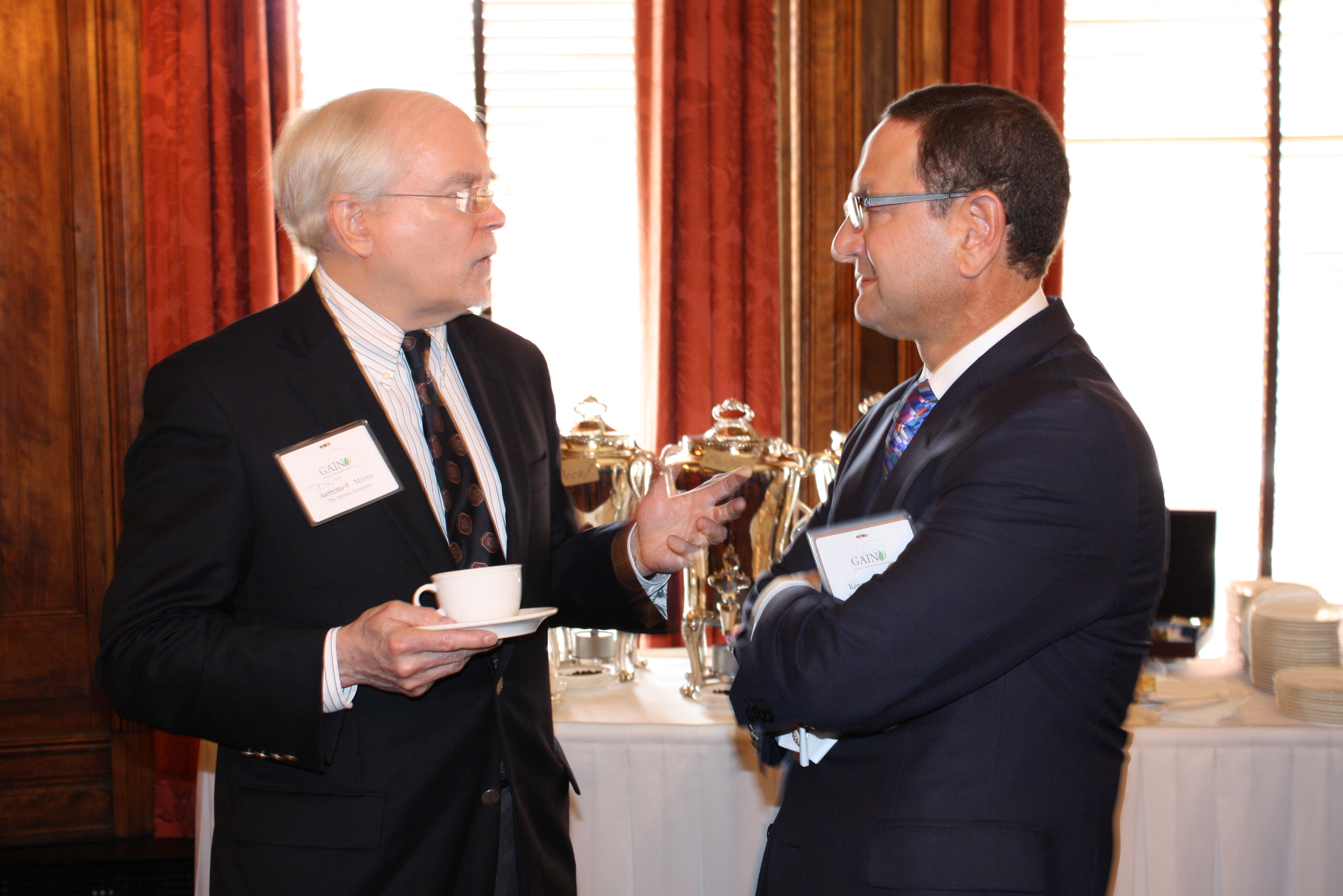 IMG_8882_Tony_Morris,_Kenneth_Hersh